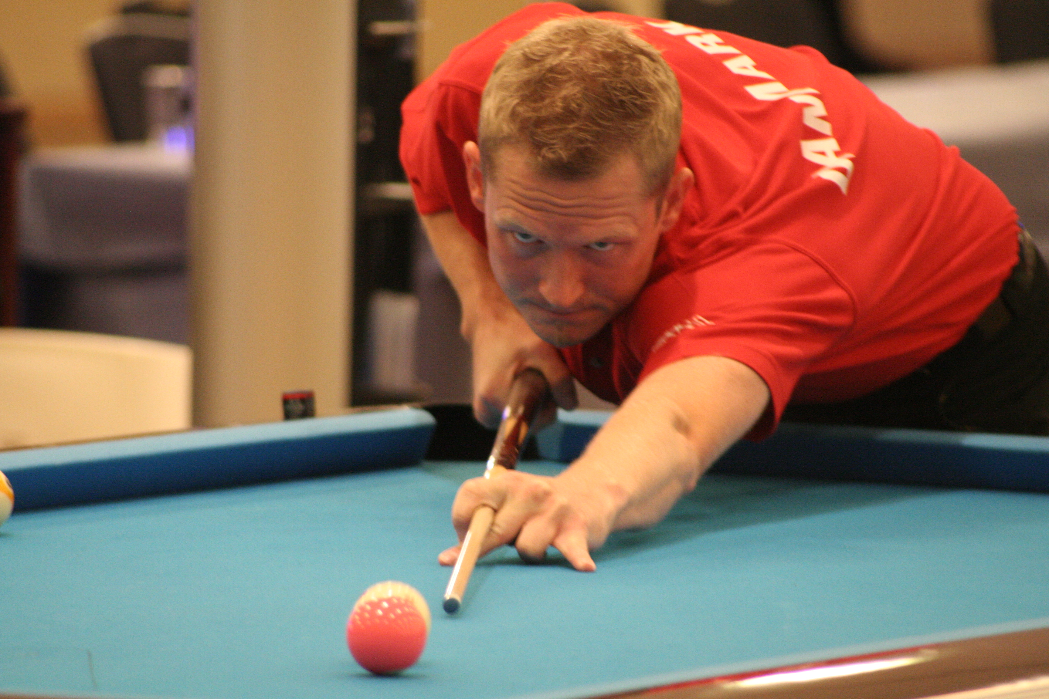 Danish pool player Kasper Kristoffersen at the European Pool Championship 2008 in Willingen, Germany.